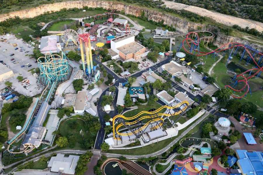 Six Flags San Antonio 2019 v2